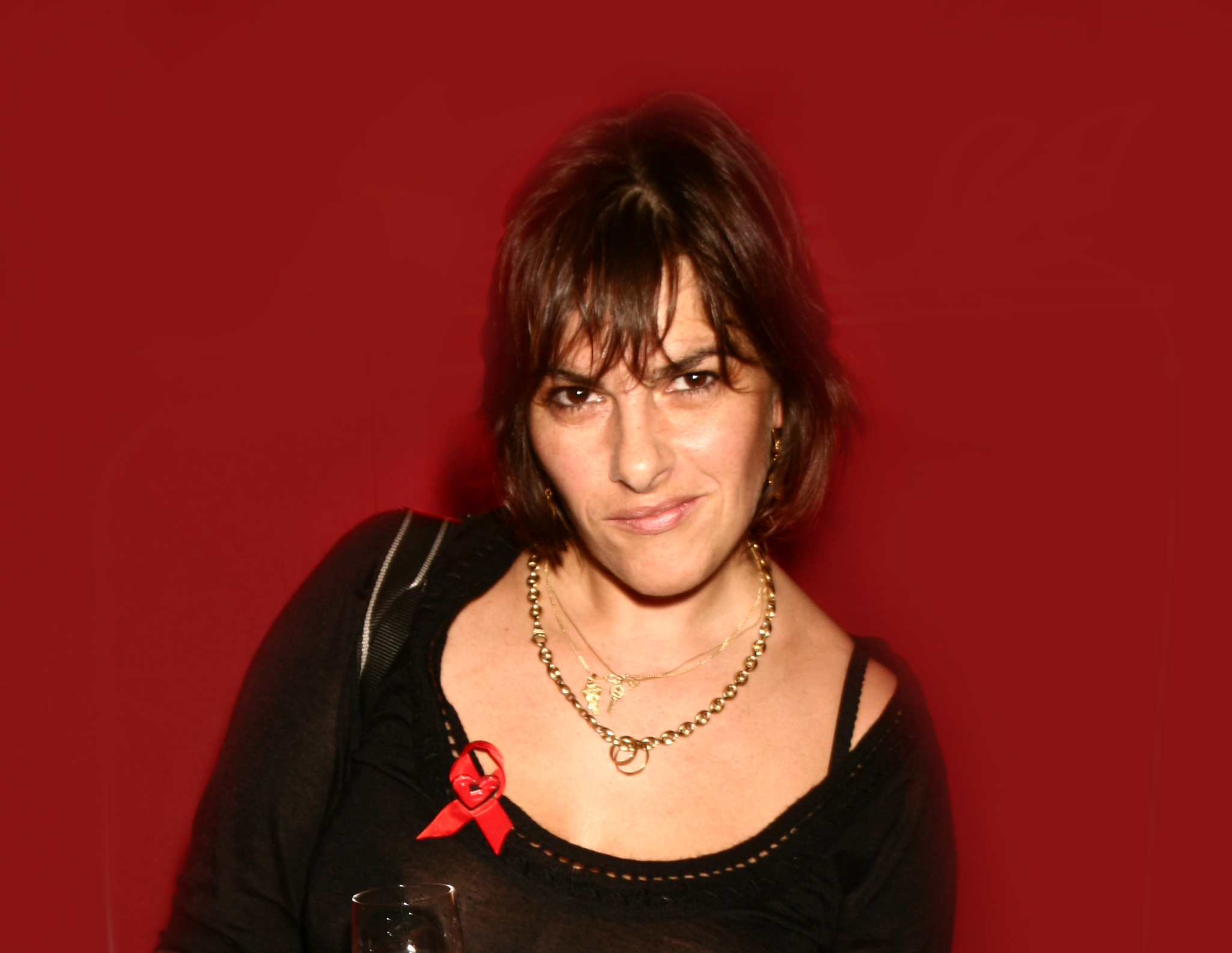 Tracey Emin Lighthouse Gala Auction in aid of Terrence Higgins Trust. Please attribute photo to Piers Allardyce